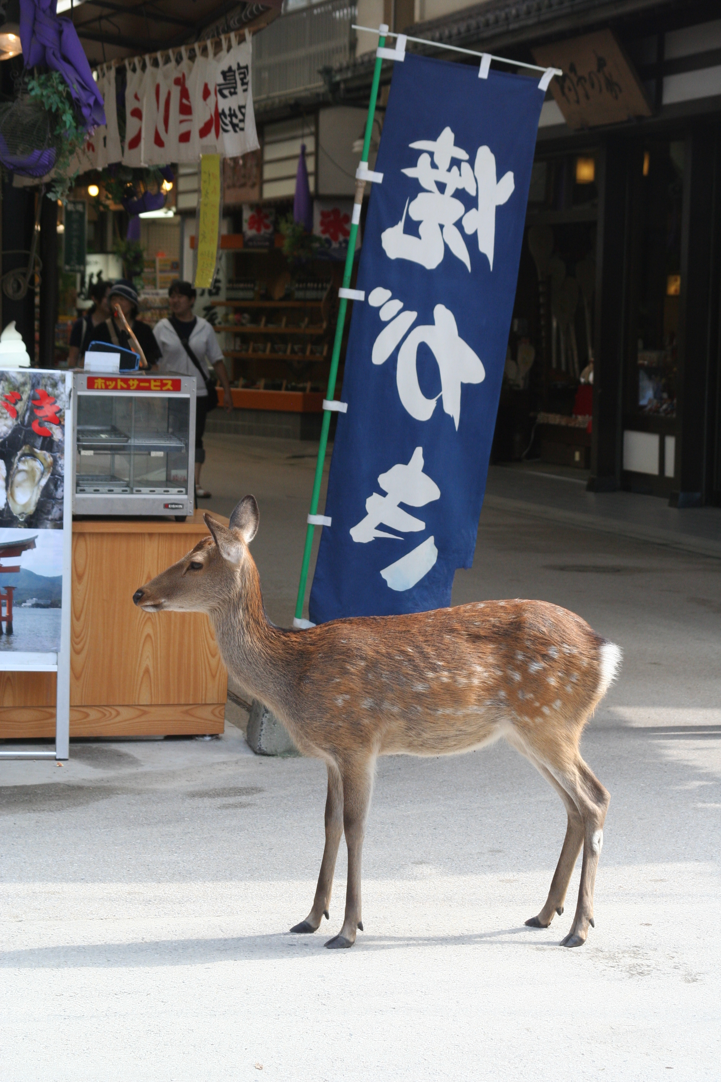 Tame deer roaming the streets of Miyajima (Itsukushima) Island, Hiroshima Prefecture, Japan.